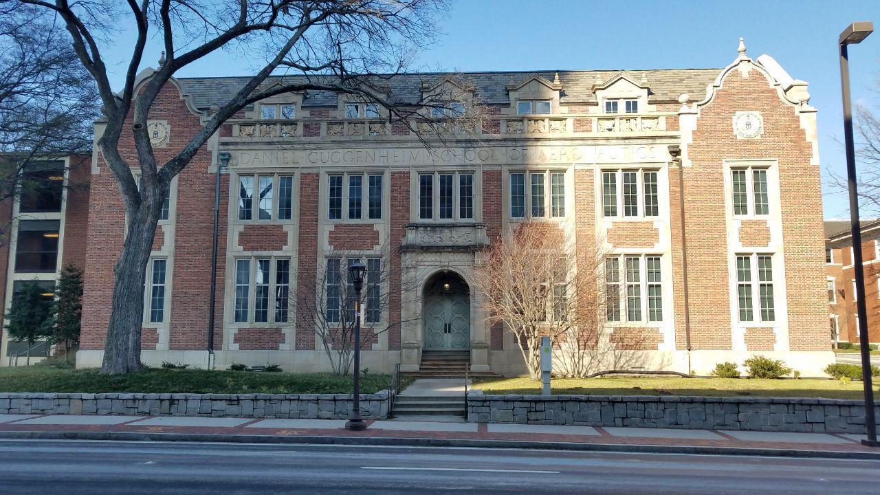 Front view of the Daniel Guggenheim Building on the main campus of the Georgia Institute of Technology in Atlanta, Georgia. Picture taken from across North Avenue. Inscription on the front of the building reads "Daniel Guggenheim School of Aeronautics", which is now known as the Daniel Guggenheim School of Aerospace Engineering.